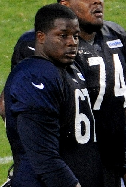 Offensive tackle, Jordan Mills, at Chicago Bears training camp in 2014.